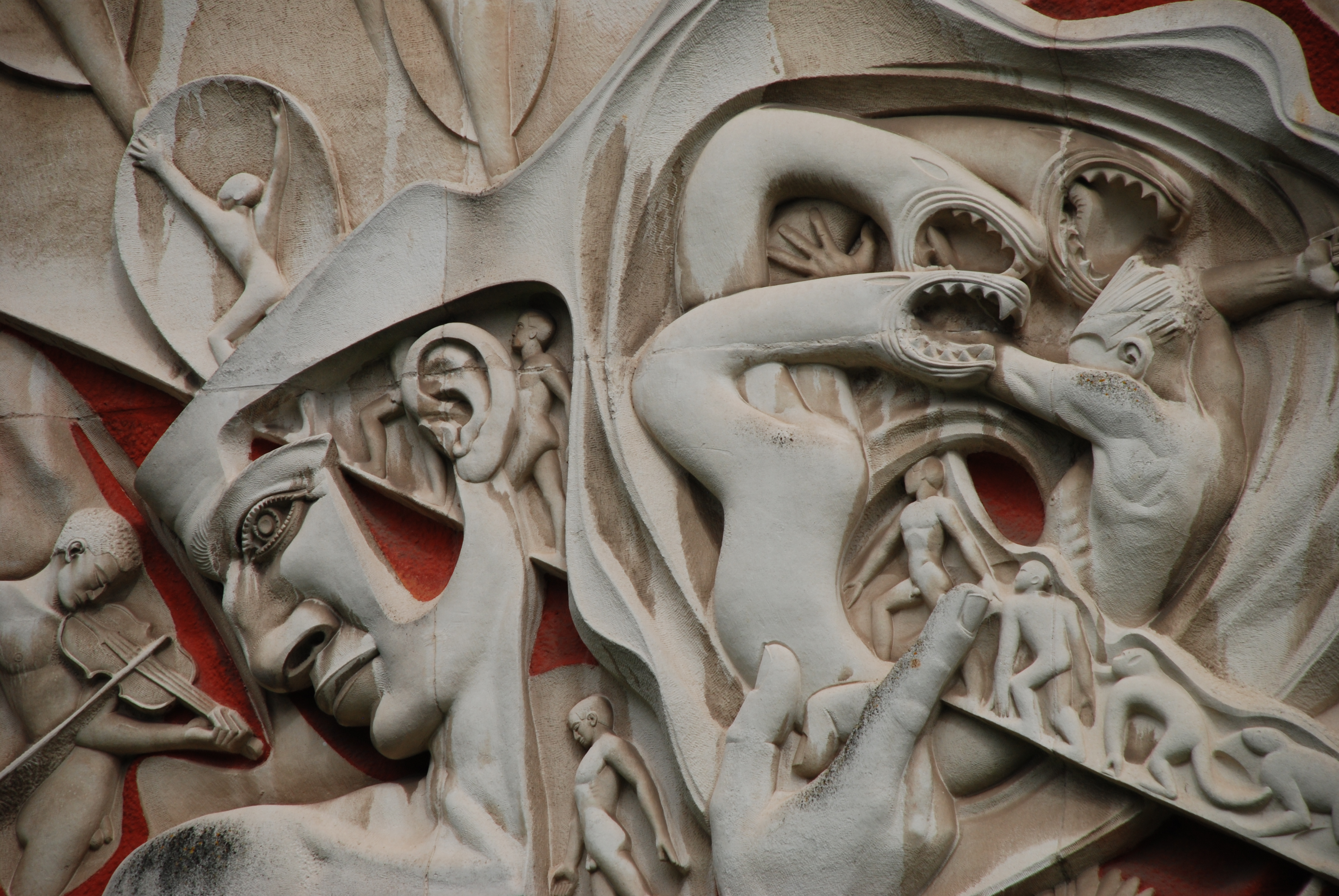 Detail of Man's Struggle by Walter Ritchie, displayed on the outside of Herbert Art Gallery and Museum, Coventry.